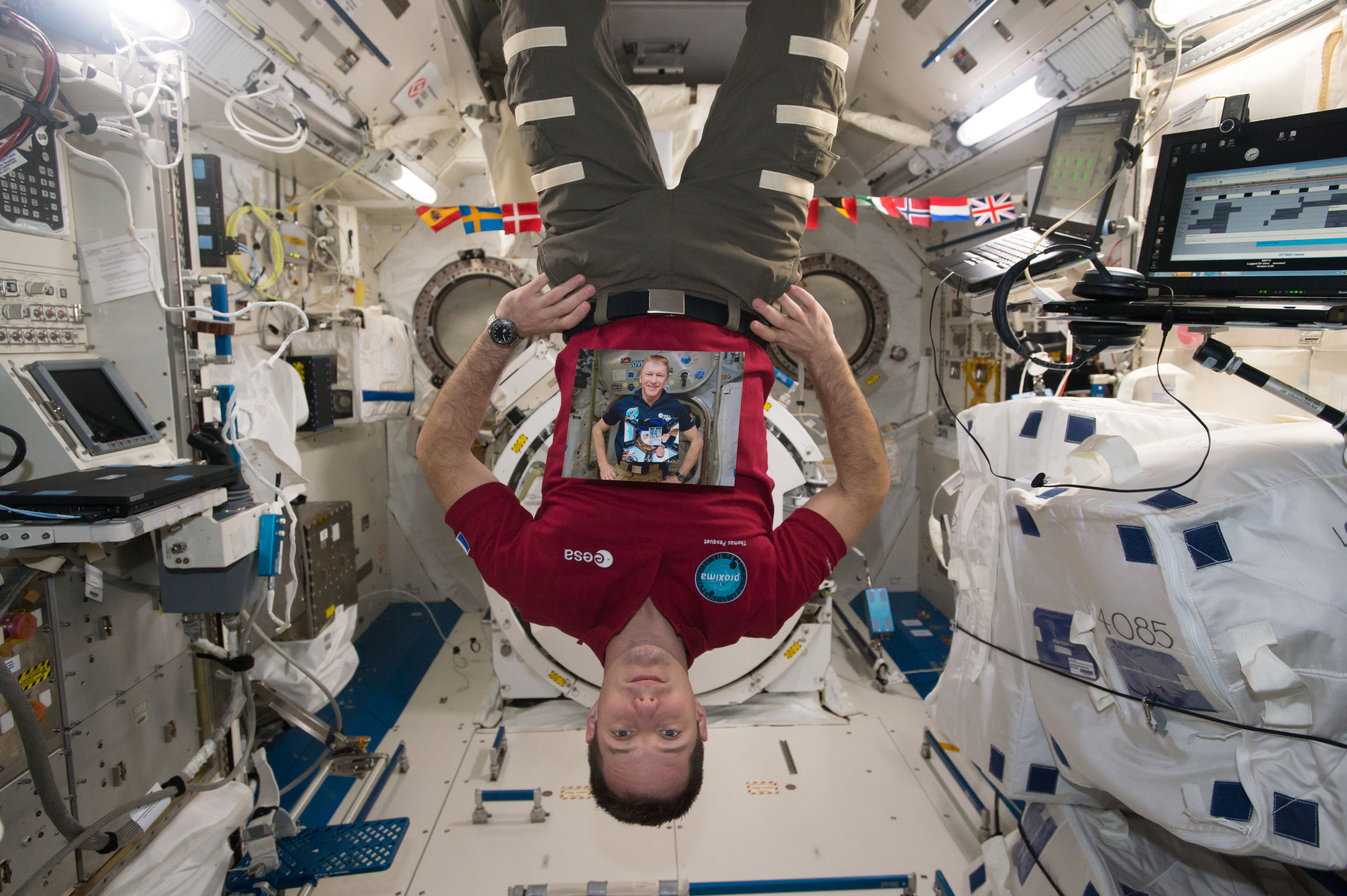 ESA (European Space Agency) astronaut Thomas Pesquet poses with a photo of several of his astronaut predecessors taken aboard the International Space Station.